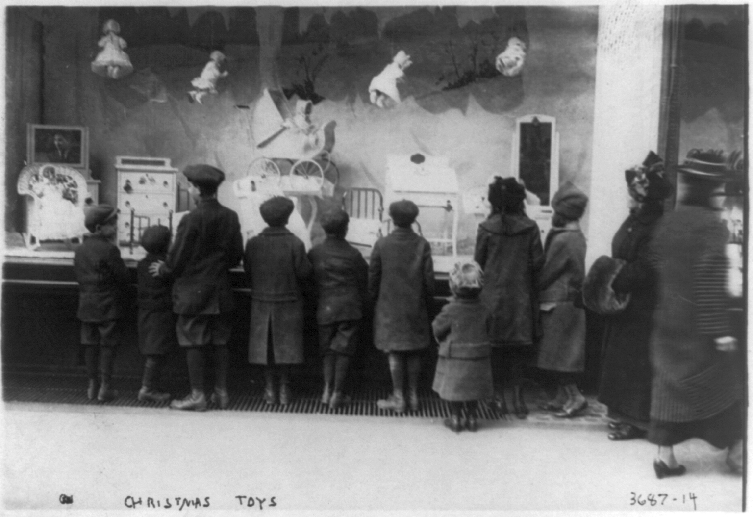 Small children gazing through Macy's toy window, New York City.